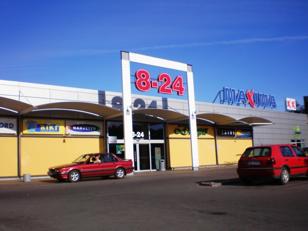 VP Market group's supermarket in Latvia